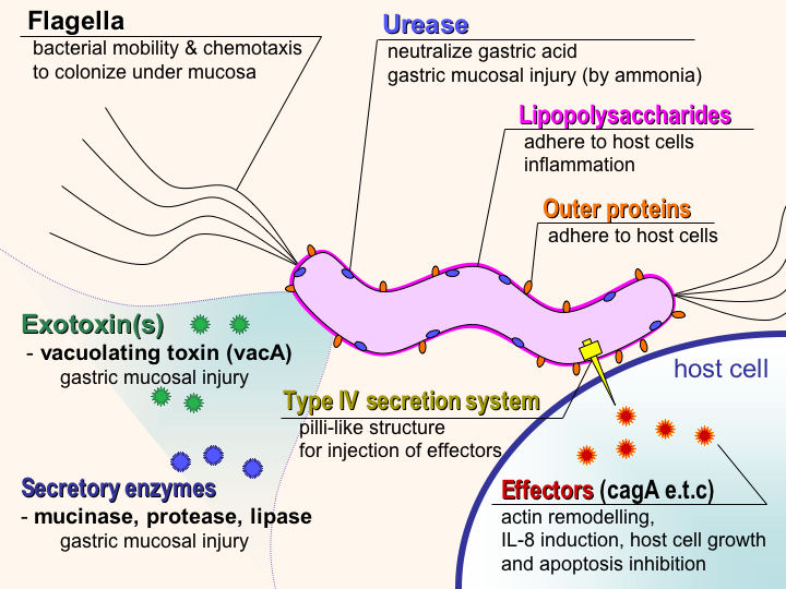 Schematic diagram of virulence factors of Helicobacter pylori, with English annotation